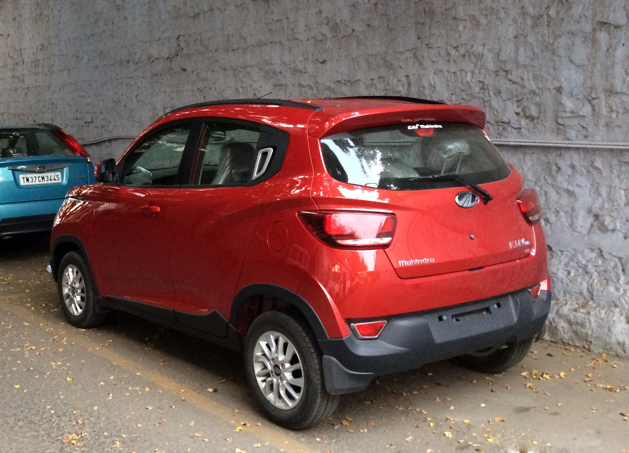 Mahindra KUV100 in CAI, Coimbatore